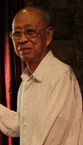 Alfonso Yuchengco - Filipino Billionaire - Deceased